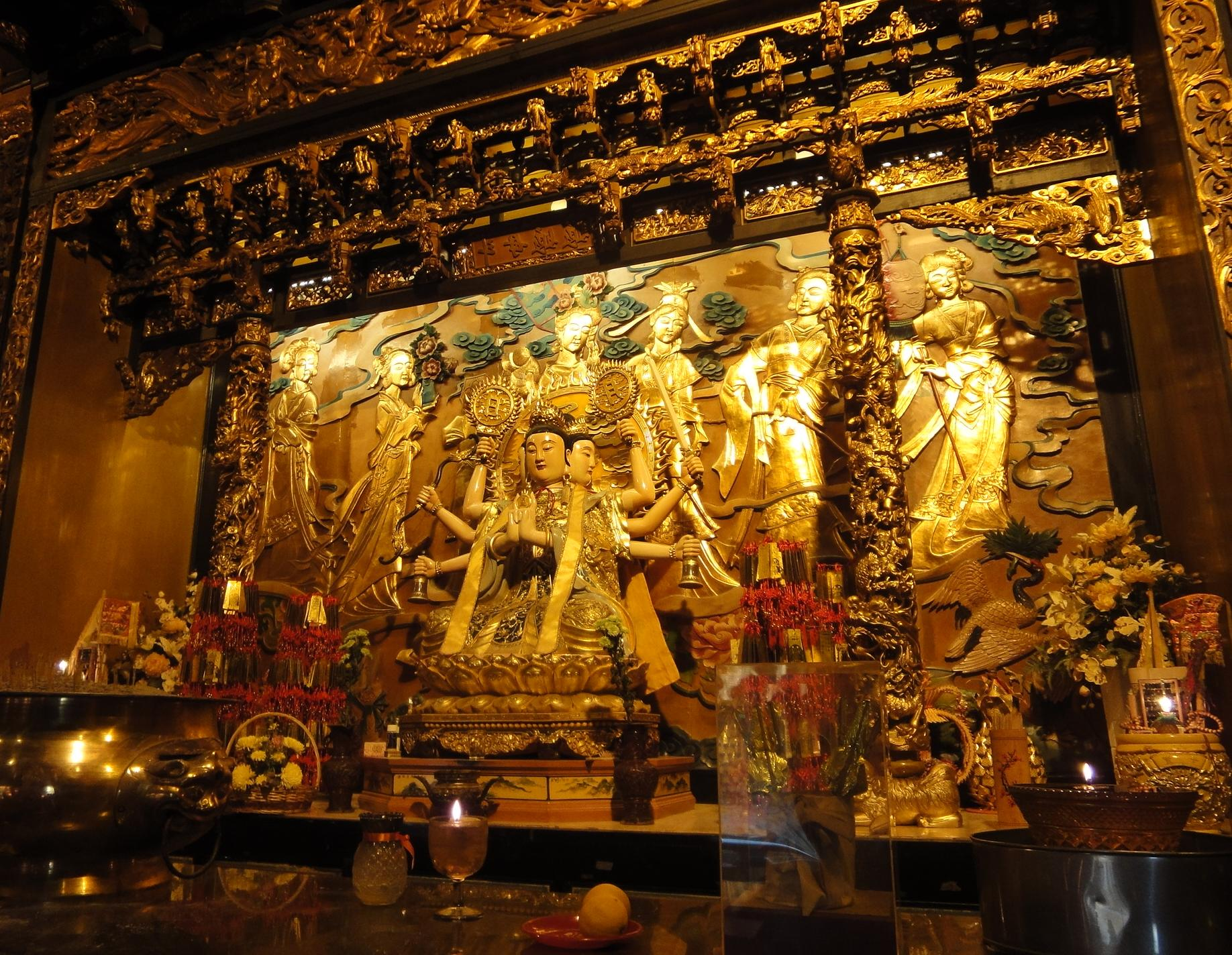 Doumu altar with statue at the Doumugong (Temple of Doumu) of Butterworth, Penang, Malaysia.